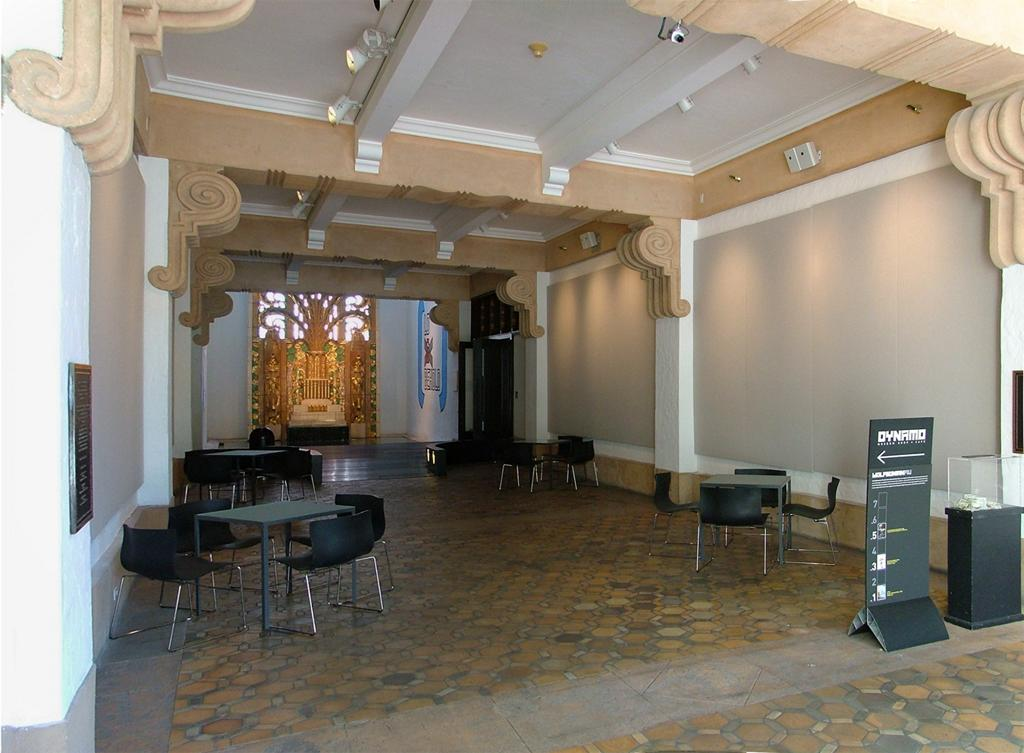 Lobby of The Wolfsonian-FIU, Miami Beach, Florida, USA.